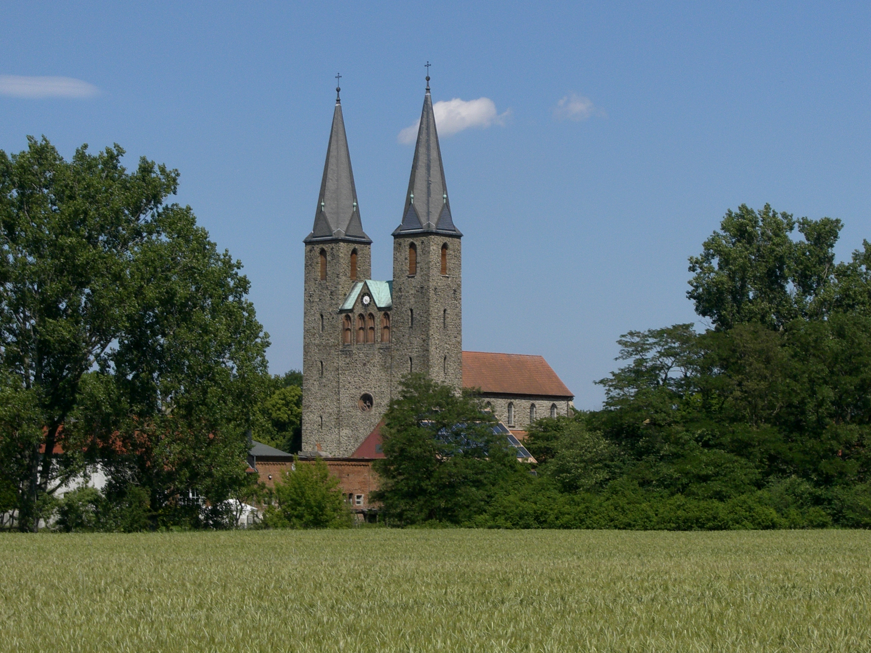 St. Laurentius Church of former Benedictine nuns monastery in Hillersleben as seen across the Ohre river, Saxony-Anhalt, Germany